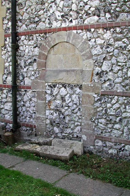 All Saints, Patcham, Sussex - Blocked doorway